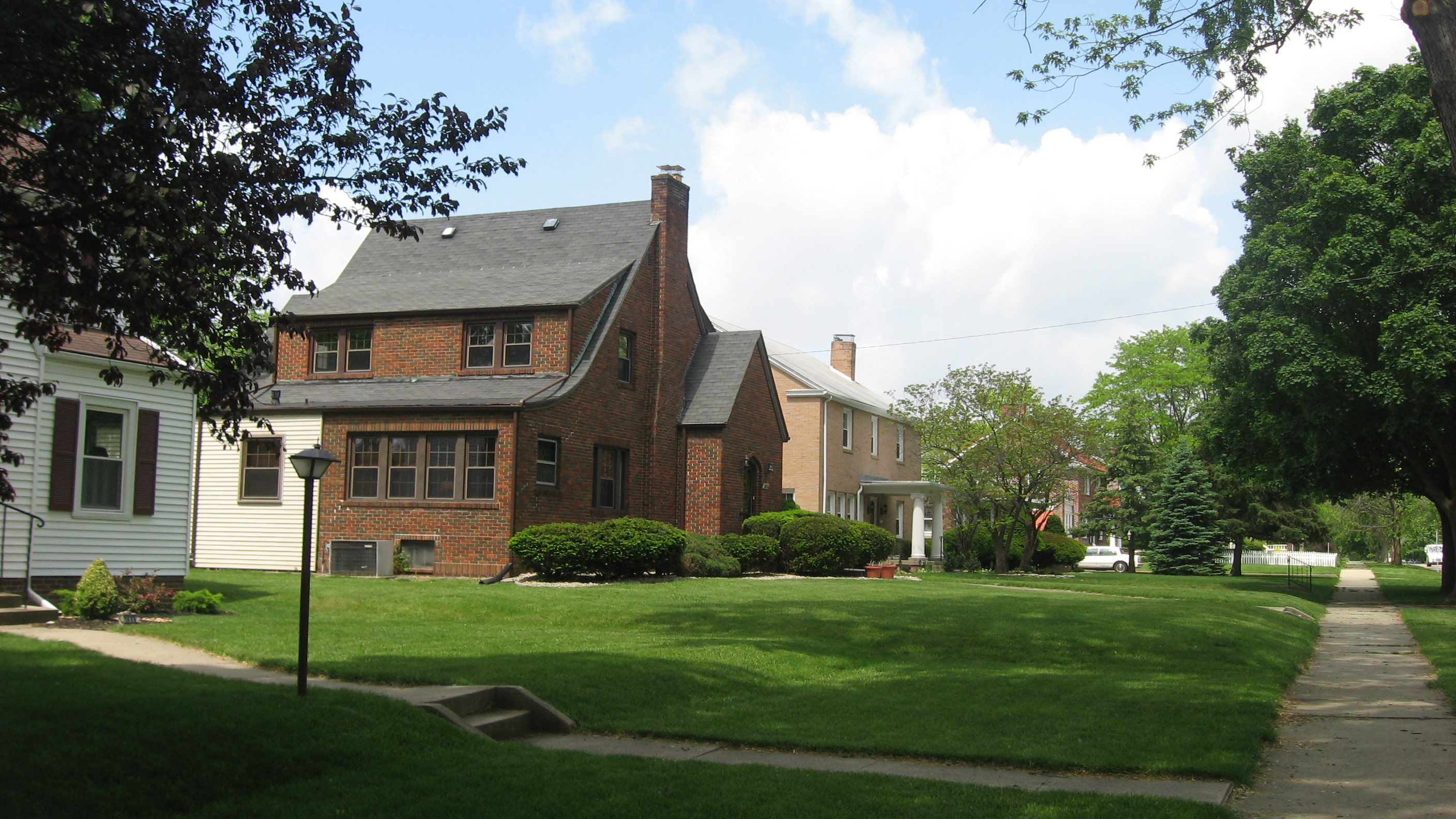 Houses on the western side of Cherry Street north of its junction with Collins Street in Huntington, Indiana, United States. From left to right, the three nearby houses are: 1446 Cherry (only partly visible): Dutch Colonial Revival style, built in 1915 1454 Cherry: Tudor Revival style, built in 1915 1506 Cherry, the Lawrence Brown House: Colonial Revival style, built in 1920 This block is part of the Hawley Heights Historic District, a historic district that is listed on the National Register of Historic Places.